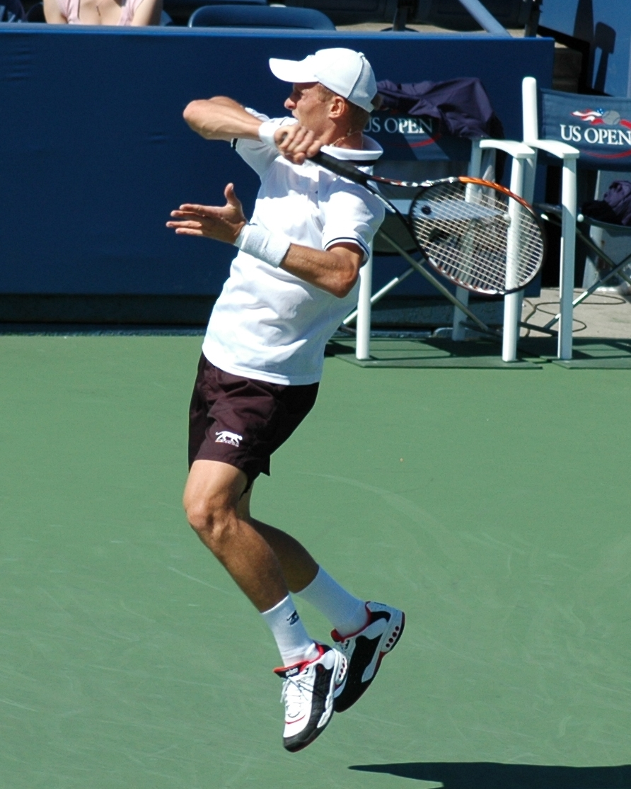 Nikolay Davydenko at the 2008 US Open